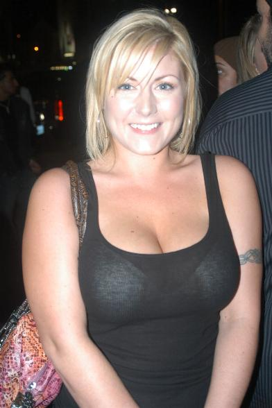 Velicity Von at Video Team's Alexis Amore Party at Basque, February 4 2006